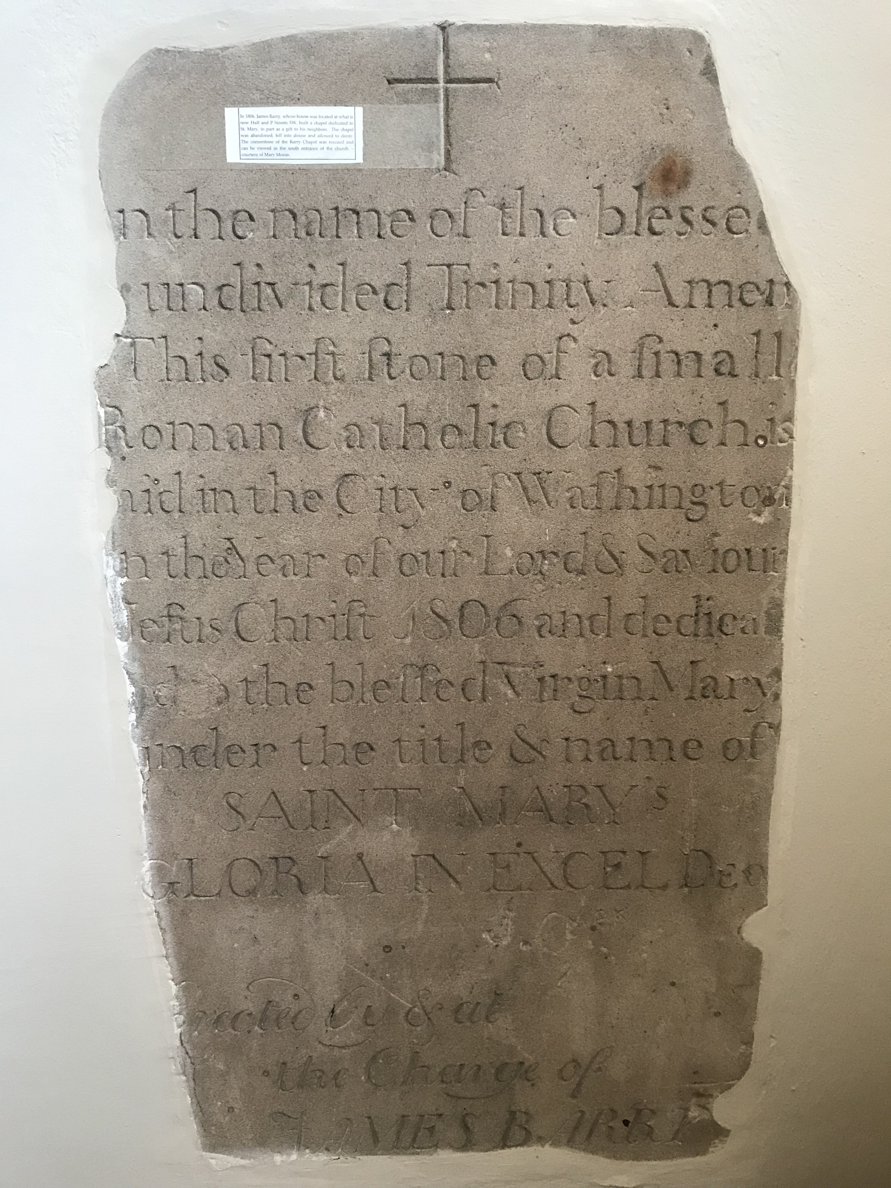 Berry chapel cornerstone 1806